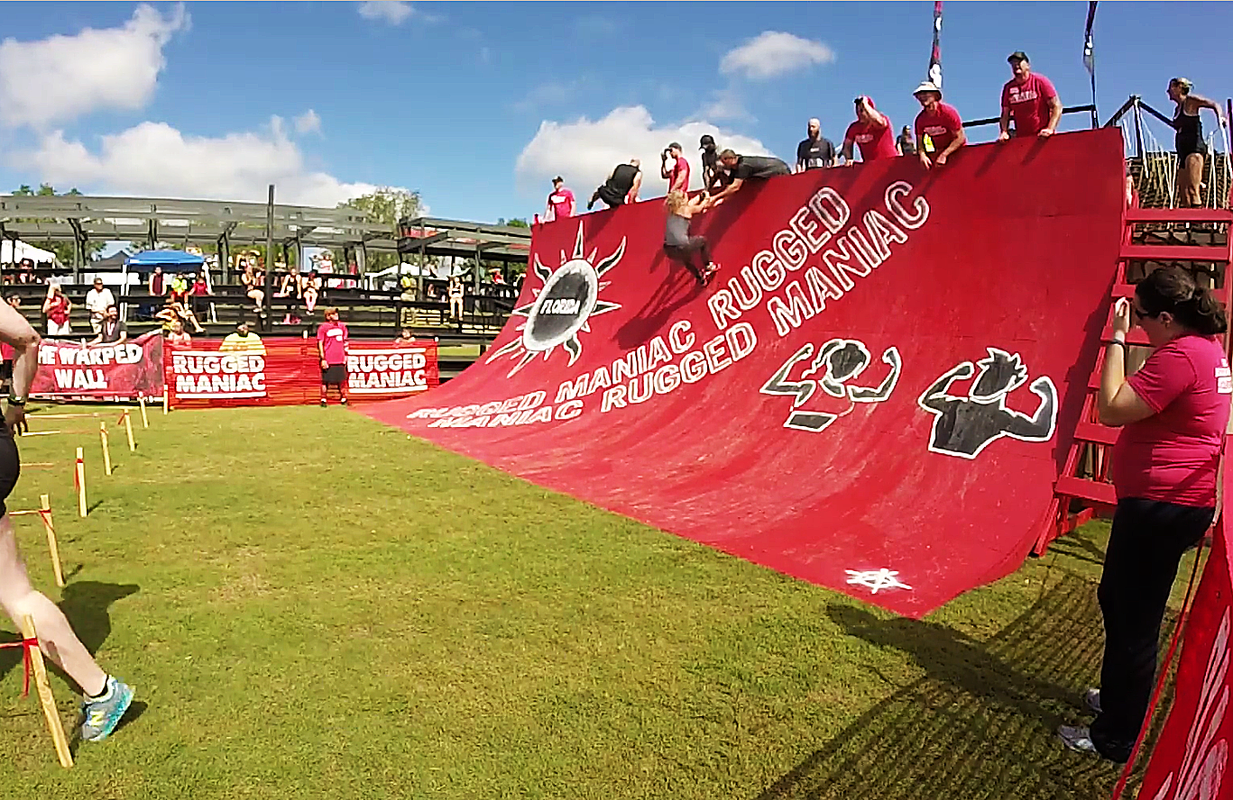 FloridaWarpWall2016